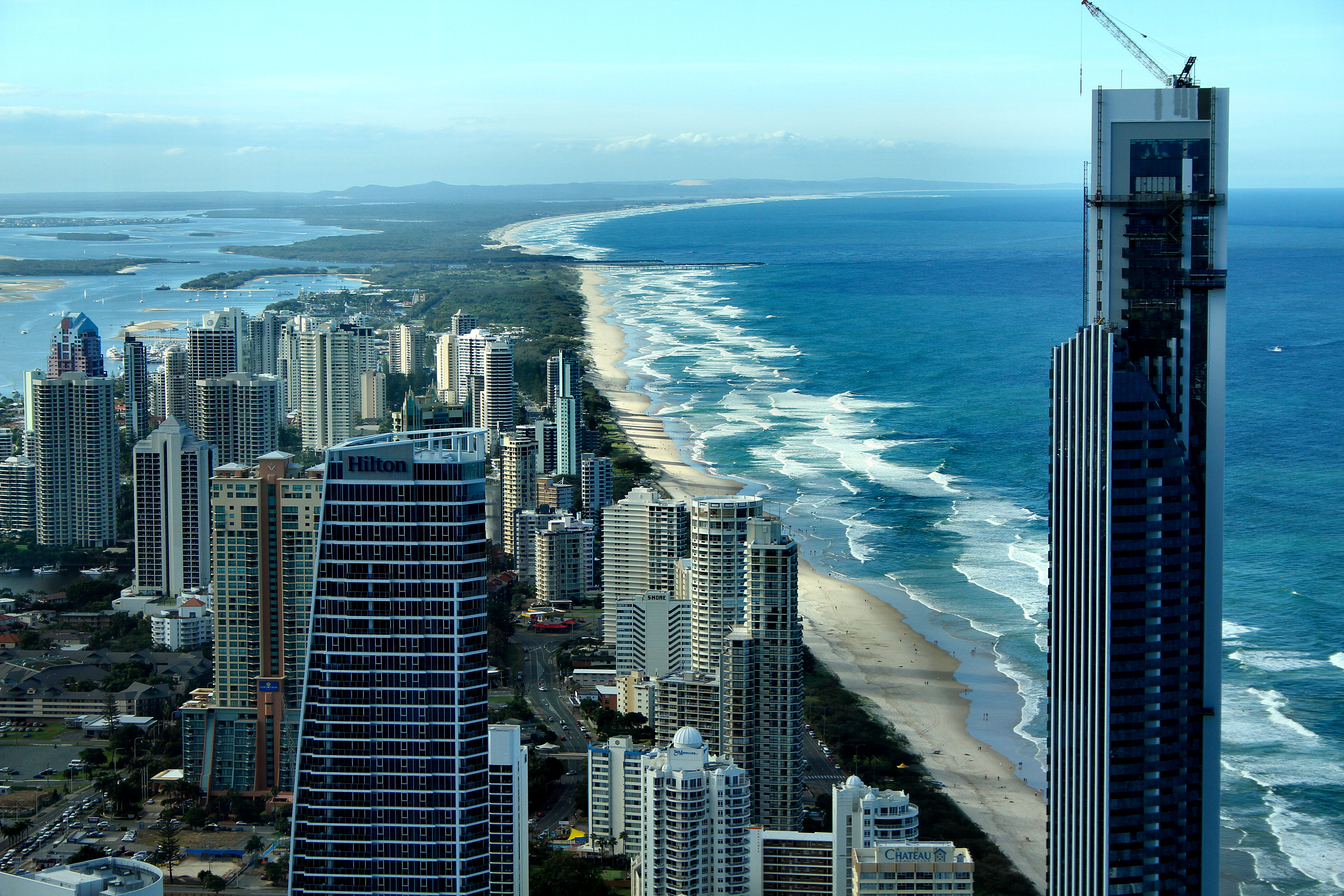 The Gold Coast skyline from the Skypoint Observation Deck